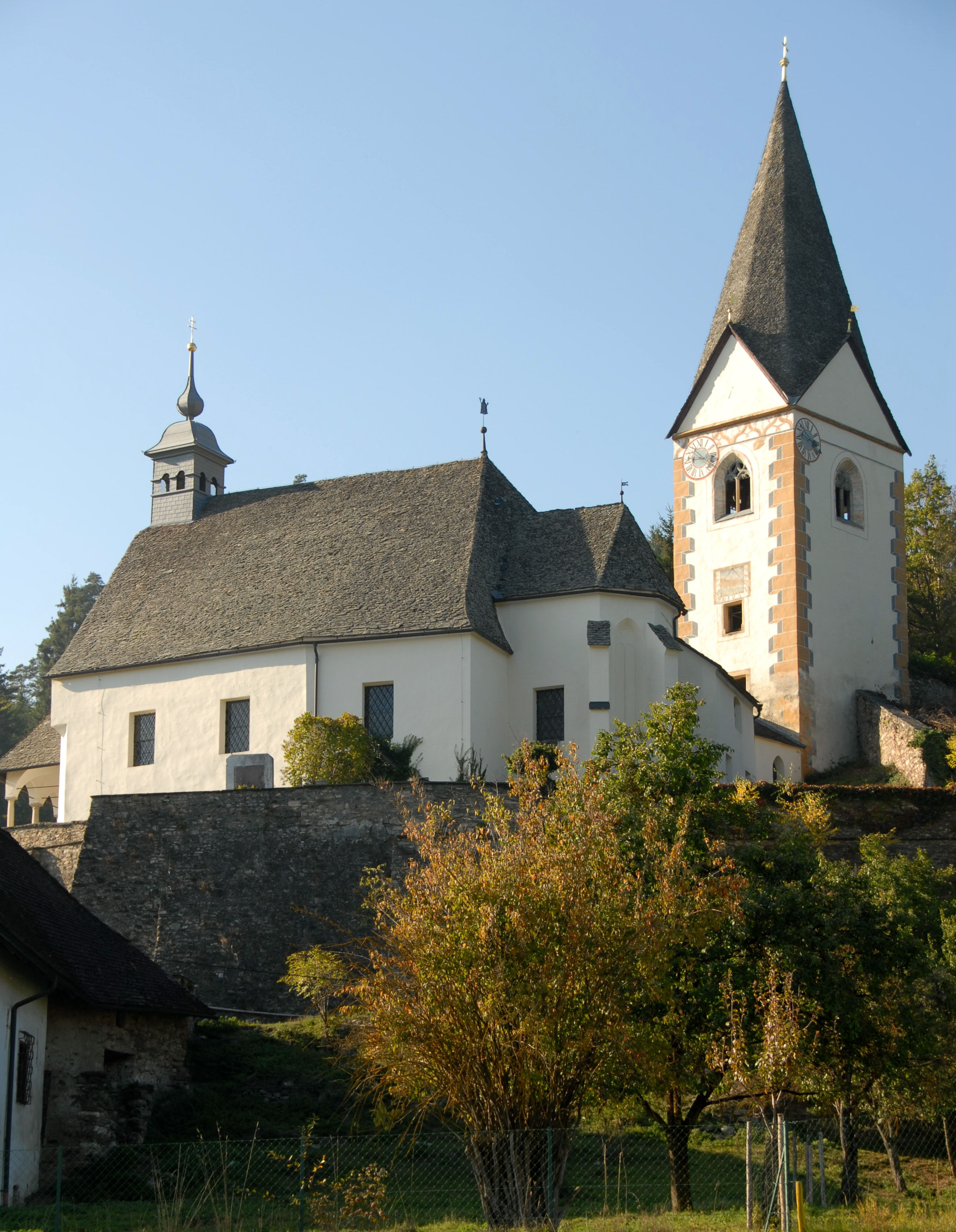 Collegiate church in Kraig, municipality Frauenstein, district Sankt Veit, Carinthia / Austria / EU